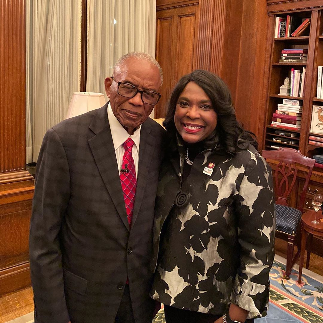 Great seeing Montgomery native Attorney Fred Grey tonight at the opening of the Library of Congress’ exhibition on Rosa Parks’ life and work!